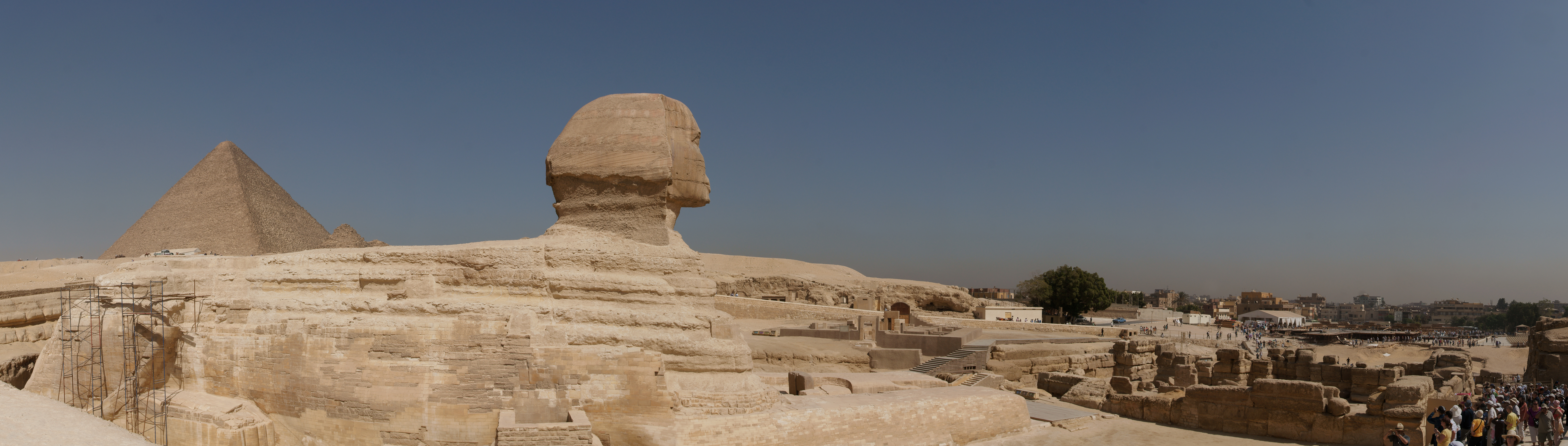 Panorama of the Sphinx and the Great Pyramid of Giza.